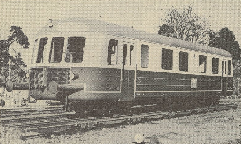 Railcar AC2mf 1101 (future 00501) of Companhia dos Caminhos de Ferro Portuguese (Portuguese Railways Company). This image was published on the Gazeta dos Caminhos de Ferro magazine no. 1446, of the 16th March 1948, and scanned by the Hemeroteca Municipal de Lisboa.